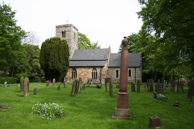 Zeppelin monument. This splendid marble marble column surmounted with an urn can be found in St.Giles' churchyard. Erected at the expense of Mr.J.Grantham it commemorates a raid by a German Zeppelin in 1916. The inscription reads “On the 24th September 1916 a bomb from a German Zeppelin fell on this spot and 13 more in the parish. No one was hurt, the church and other property was damaged”